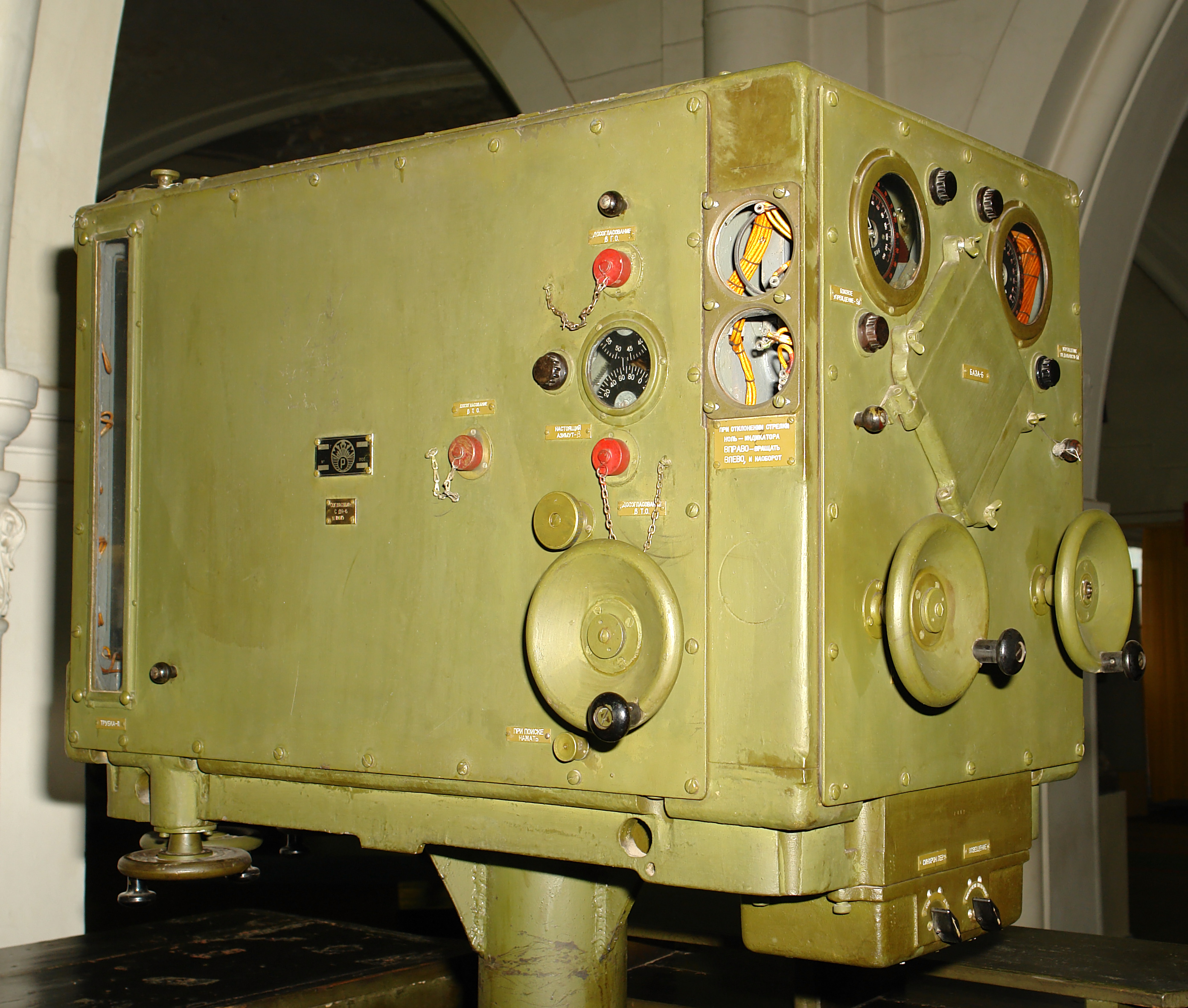 translation from the German entry: The controller for anti-aircraft artillery. Designed to transform data received from the synchronous communication with a range finder or radar, and send it as aiming information to a flak weapon.